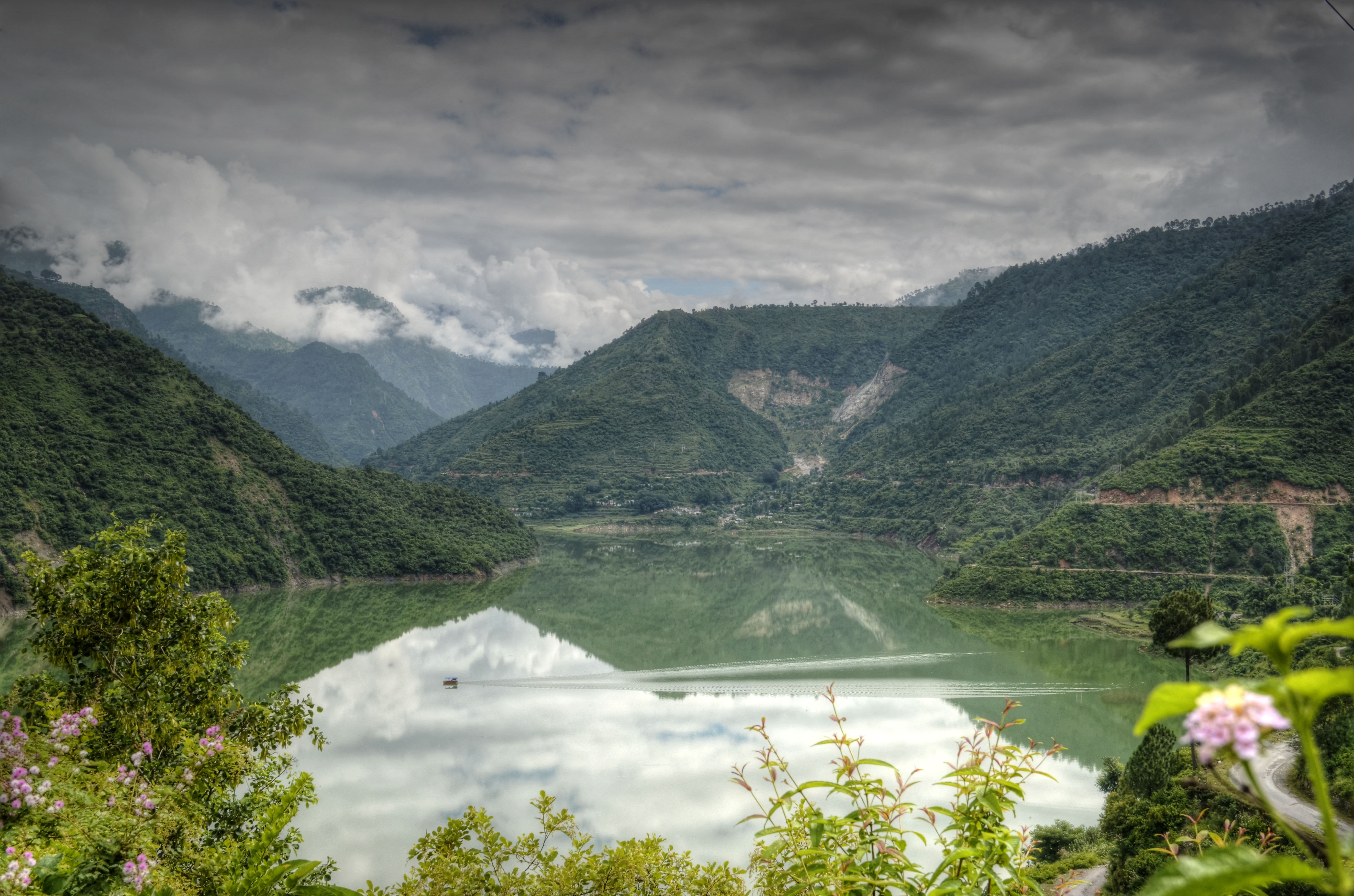 Lake created By Tehri Dam on river Bagirathie